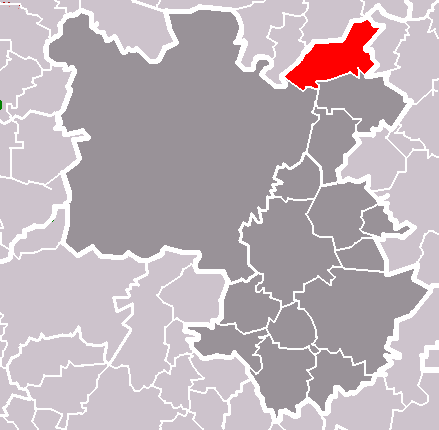 Location of Chrást municipality within Plzeň-City District.